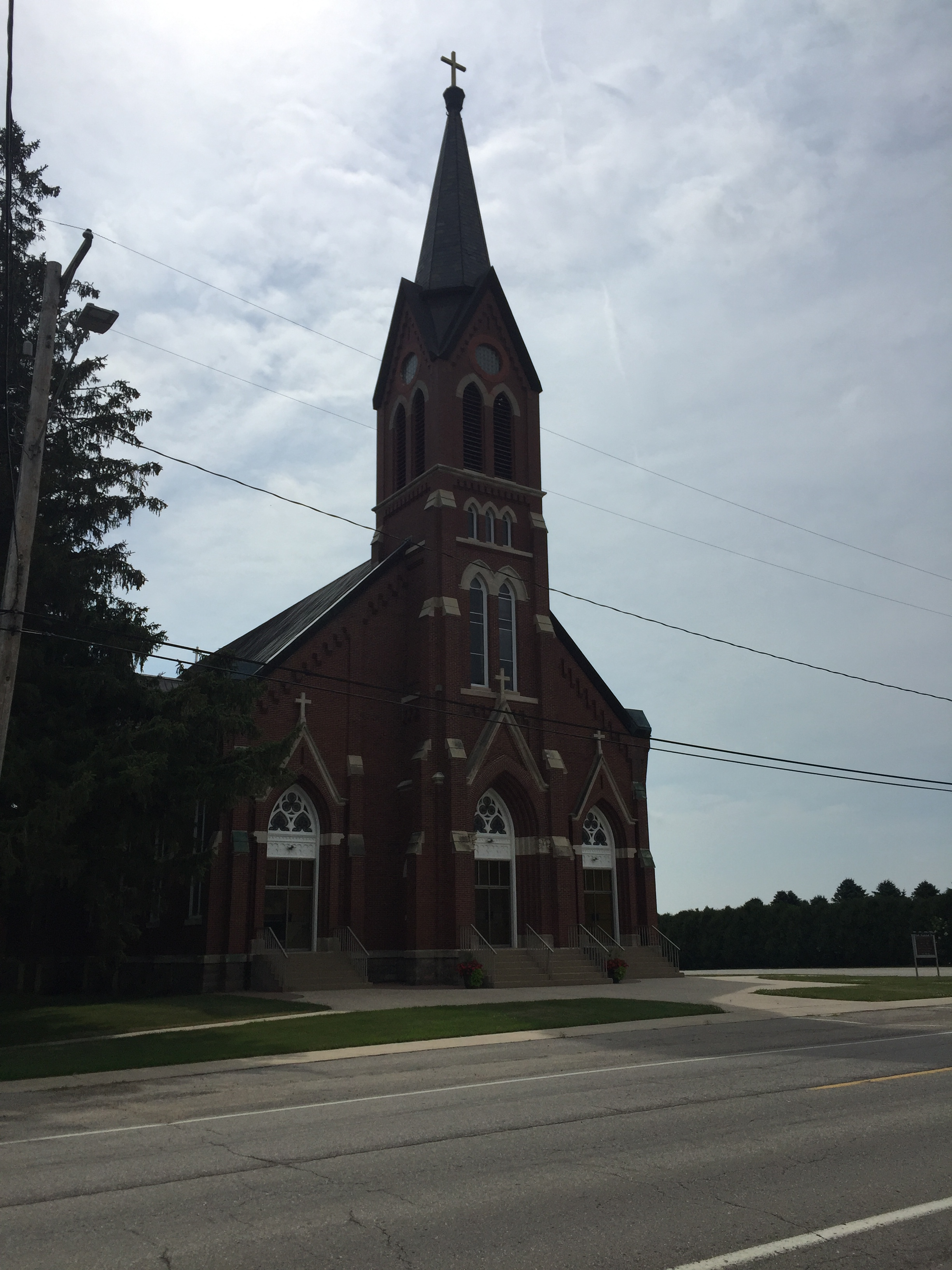 Visitation Catholic Church, Stacyville, Iowa. A live Catholic parish of the Archdiocese of Dubuque.